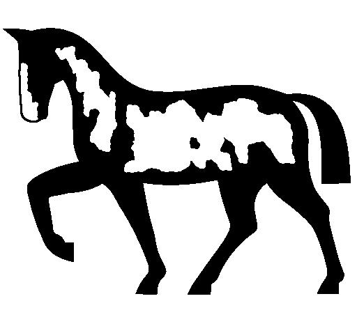 Horse colour pattern icon.